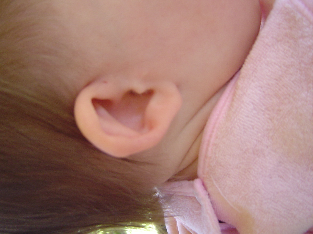 BOR Syndrome, preauricular tag- after surgery